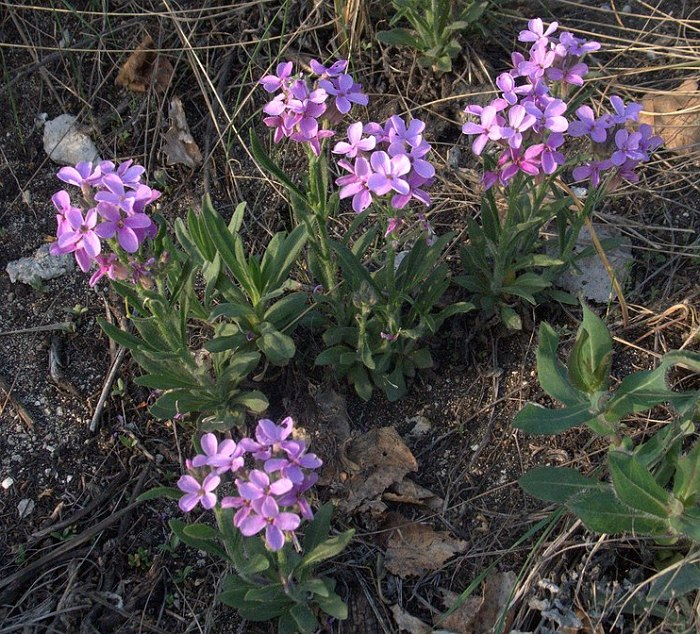 Clausia aprica (Stephan) Korn.-Trotzky, Brassicaceae, Tiv-Tiav Mount near Samara, Russia